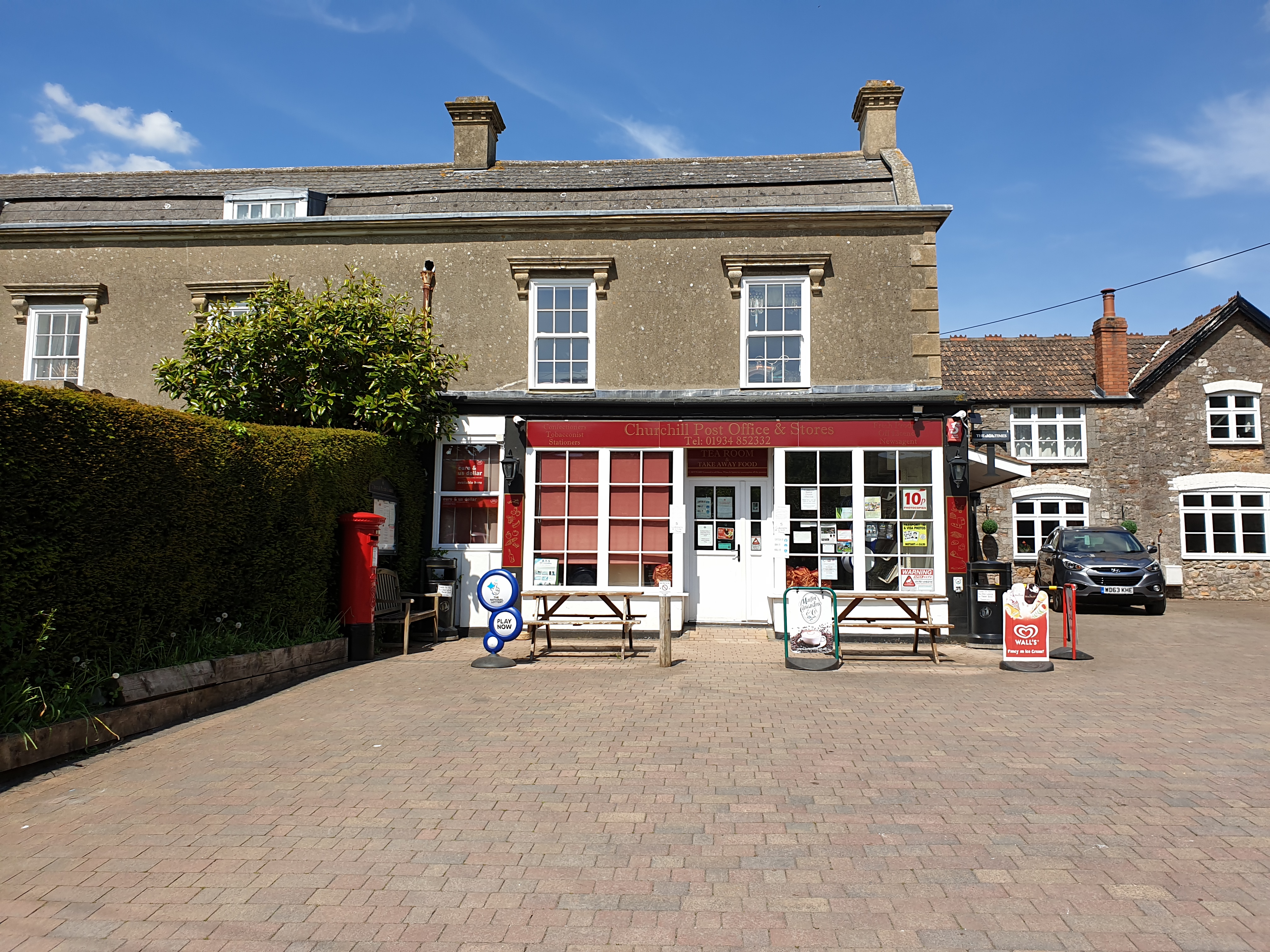 Churchill Post Office and Stores located in Front Street, Churchill, Somerset